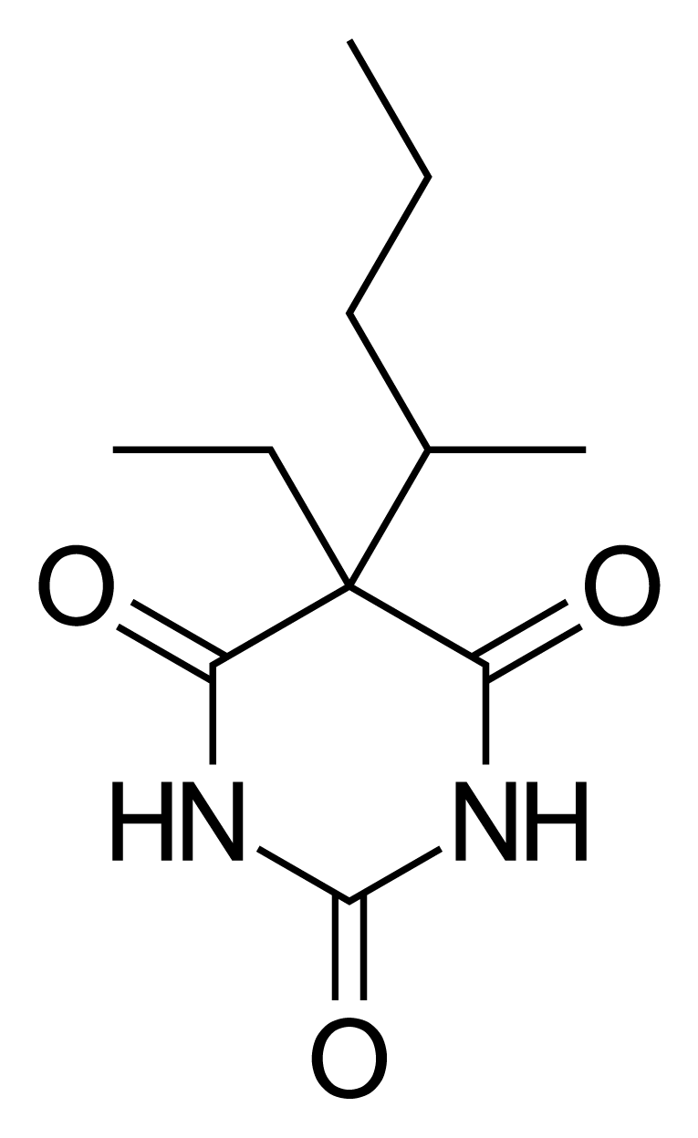 Structure of Timoxelin barbebutenol